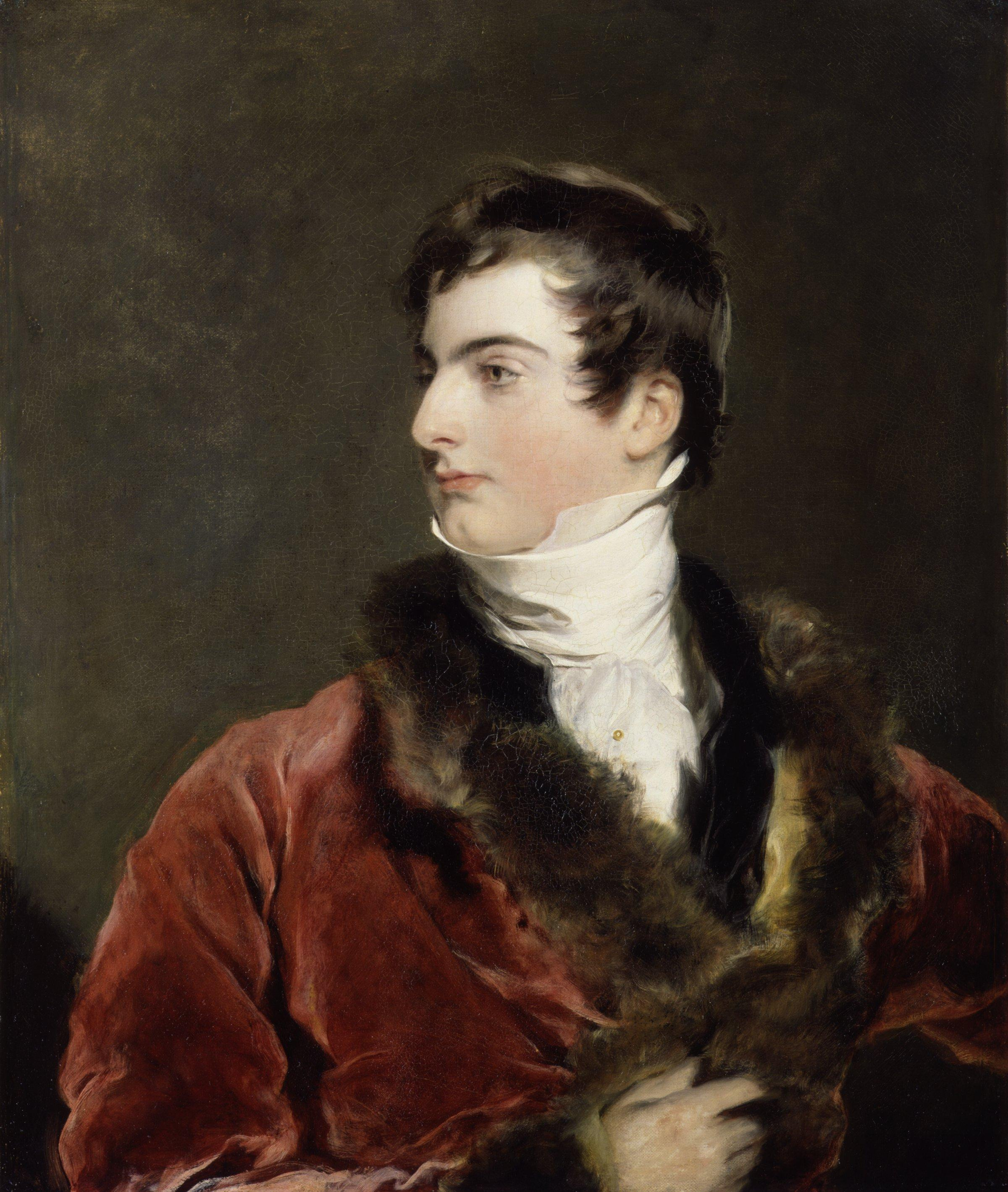 John Arthur Douglas Bloomfield, 2nd Baron Bloomfield, by Sir Thomas Lawrence (died 1830). All images in this batch have been confirmed as author died before 1939 according to the official death date listed by the NPG.